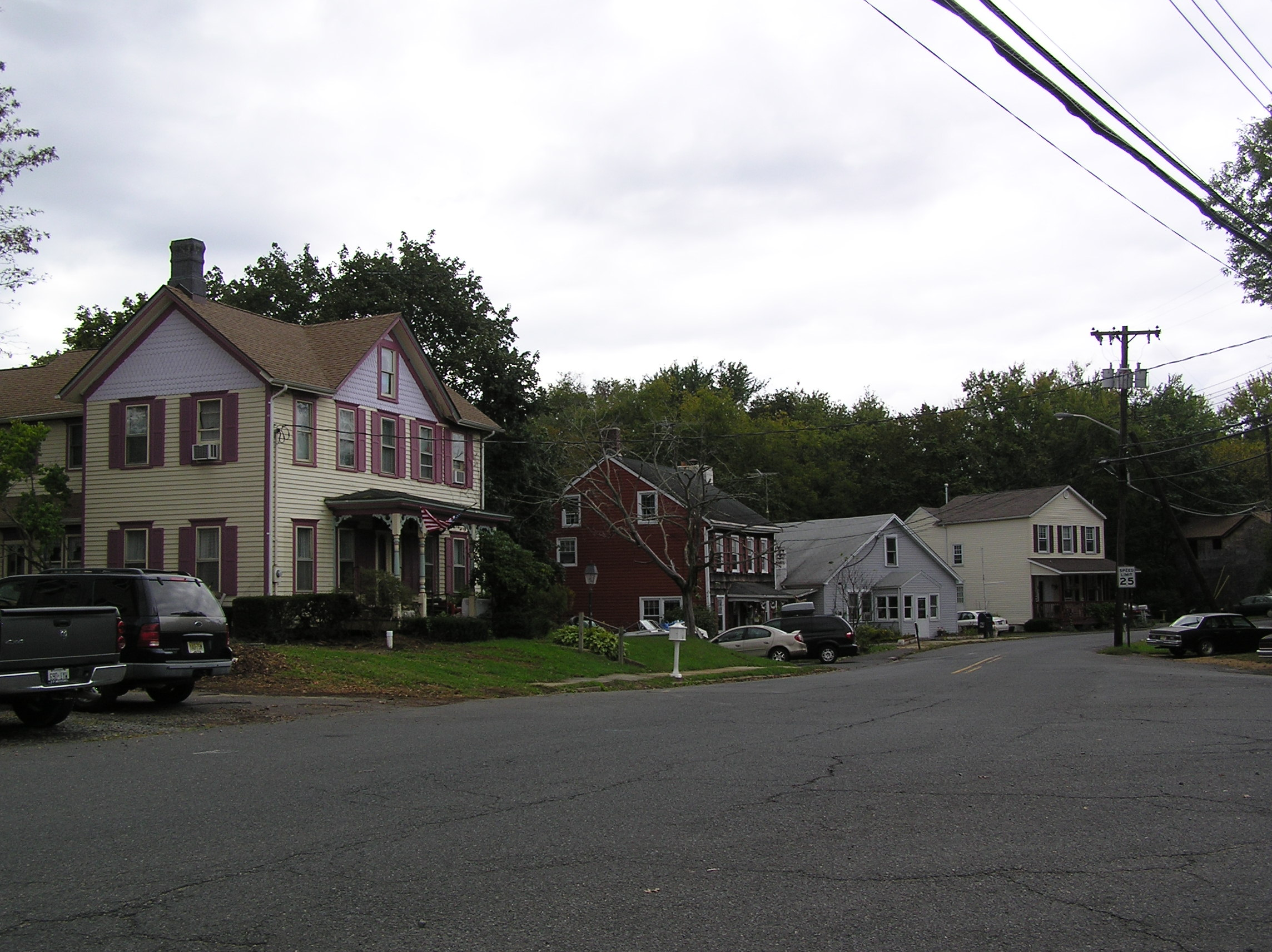 A view looking north on Imlaystown Road in the Imlaystown Historic District in Upper Freehold Township, NJ.